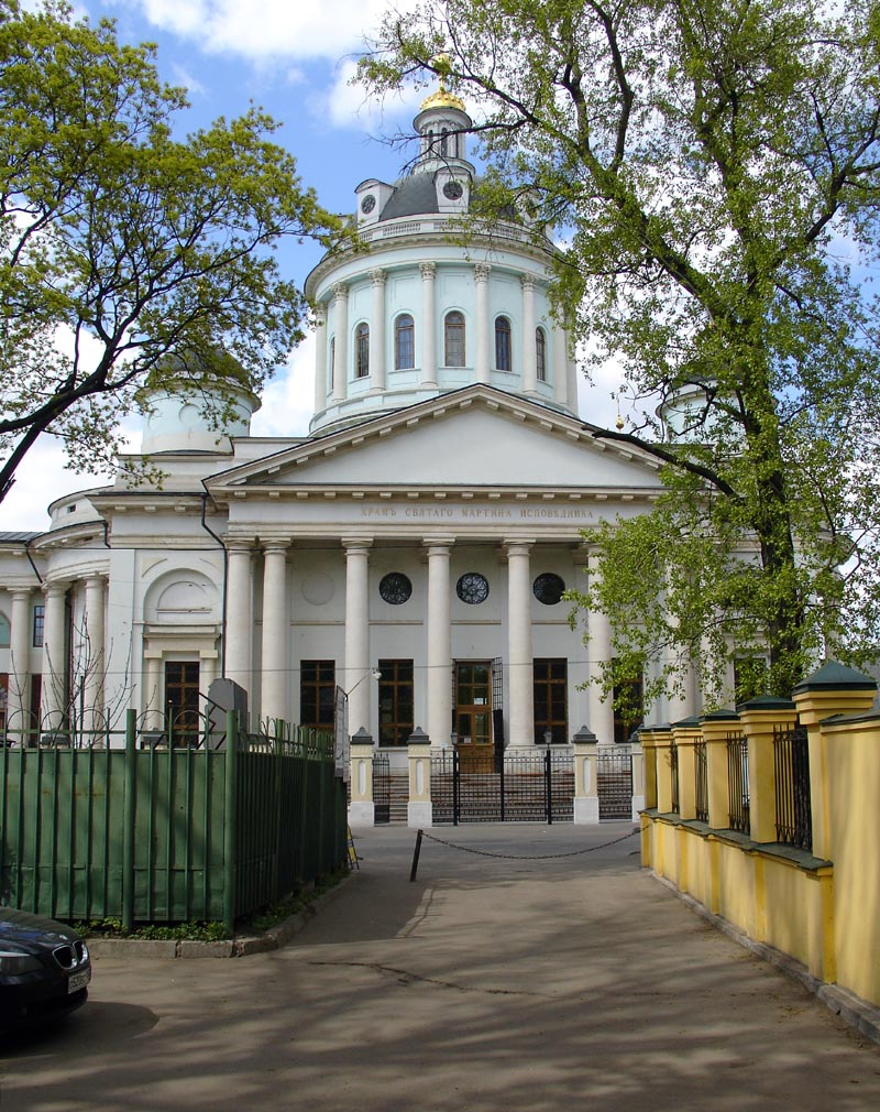 Church of St. Martin the Confessor, Moscow, 1793-1806, by Roman Kazakov